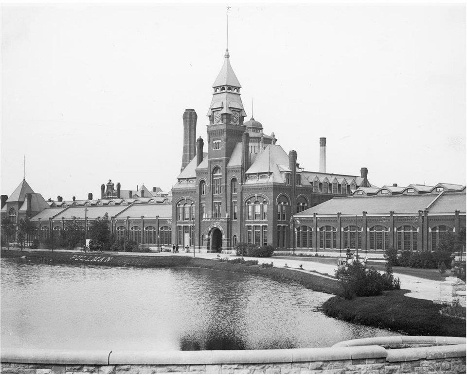 The administration building of the Pullman Palace Car Company. Lake Vista--seen in the foreground--was filled in by 1906, so this image is in the public domain.